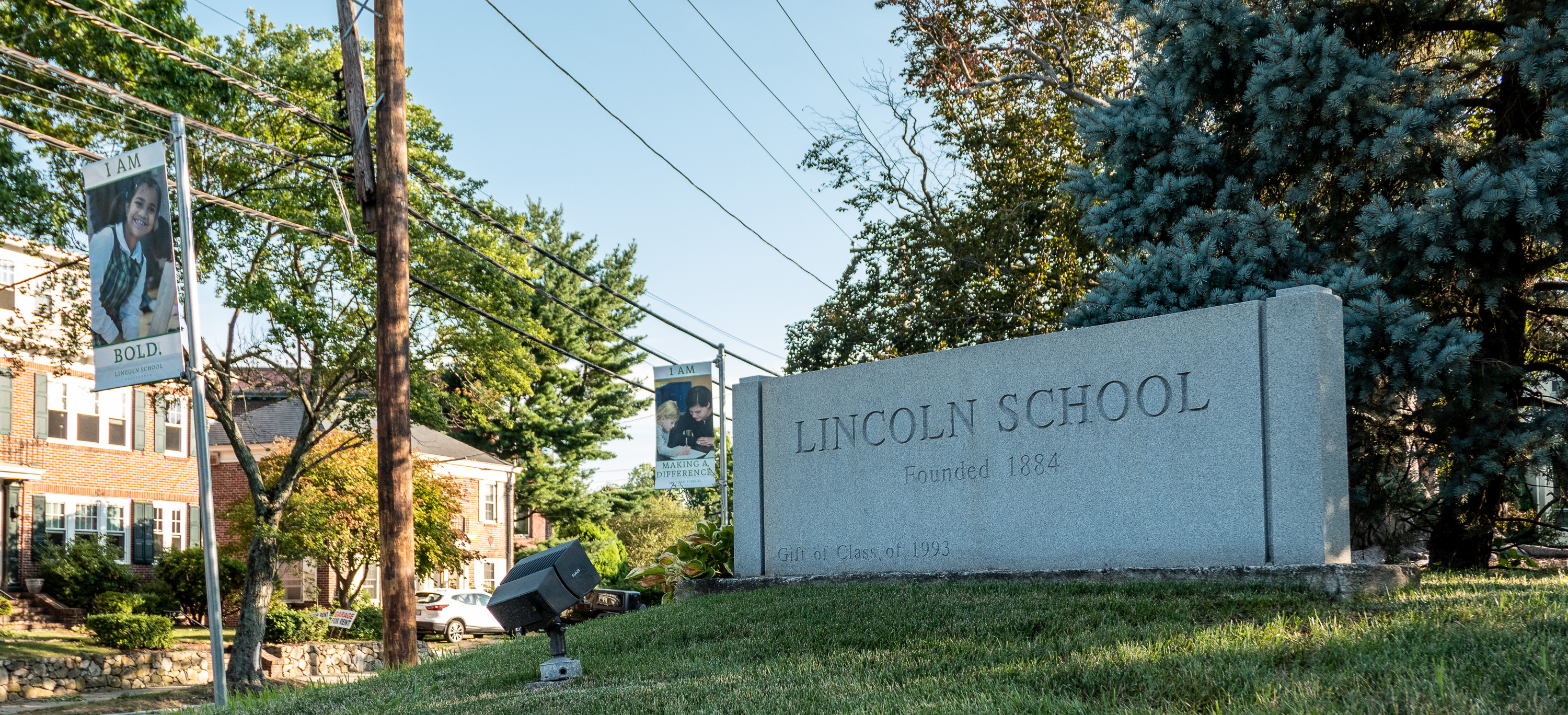 Lincoln School sign on Butler Avenue, Providence RI